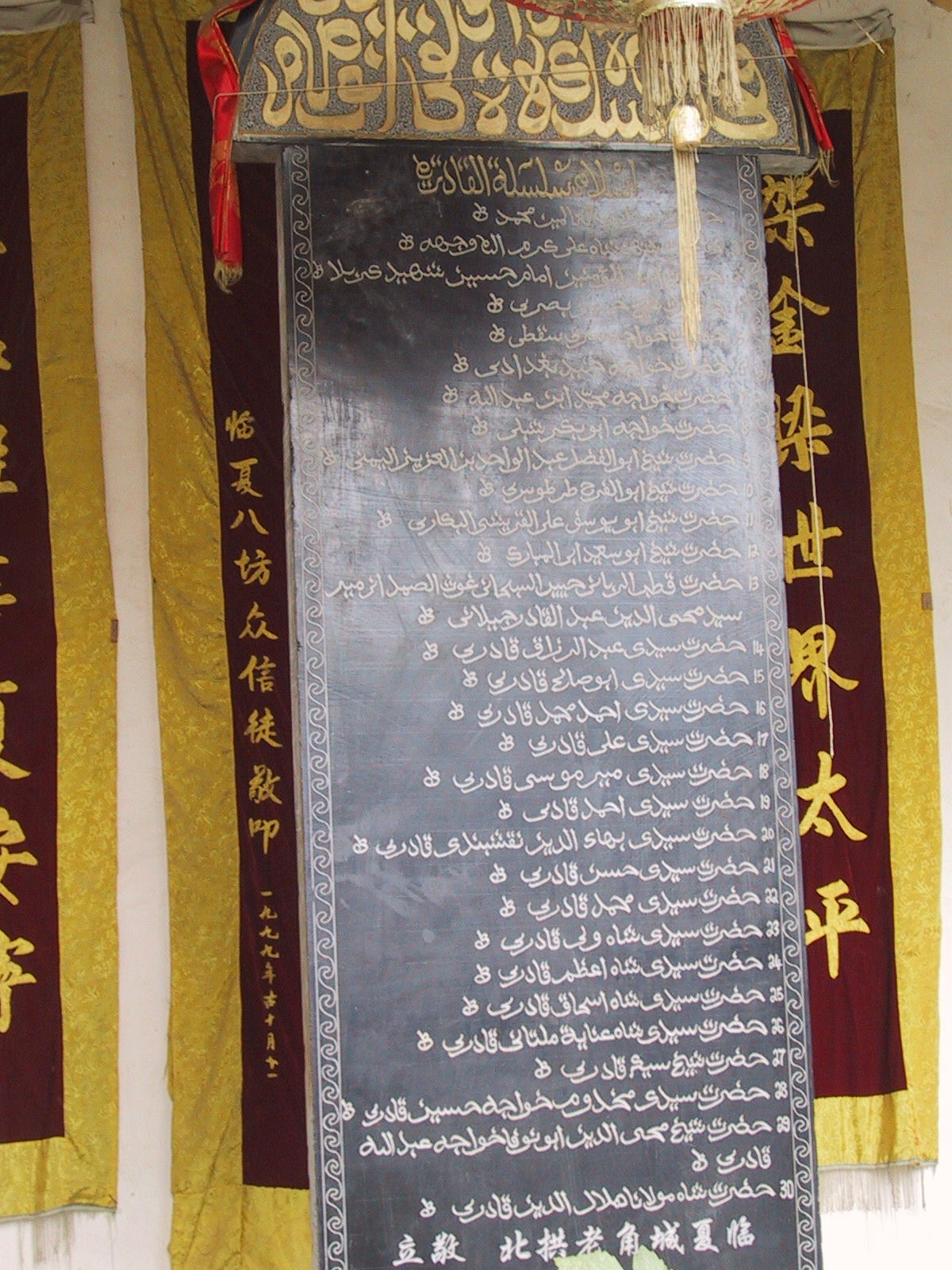 A lineage (silsilah) tablet (presumably, for Yu Baba's spiritual lineage?) in Yu Baba's Gongbei, also known as Chengjiao Gongbei (城角拱北)), in Linxia City.